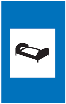 Diagram of road signs of Luxembourg